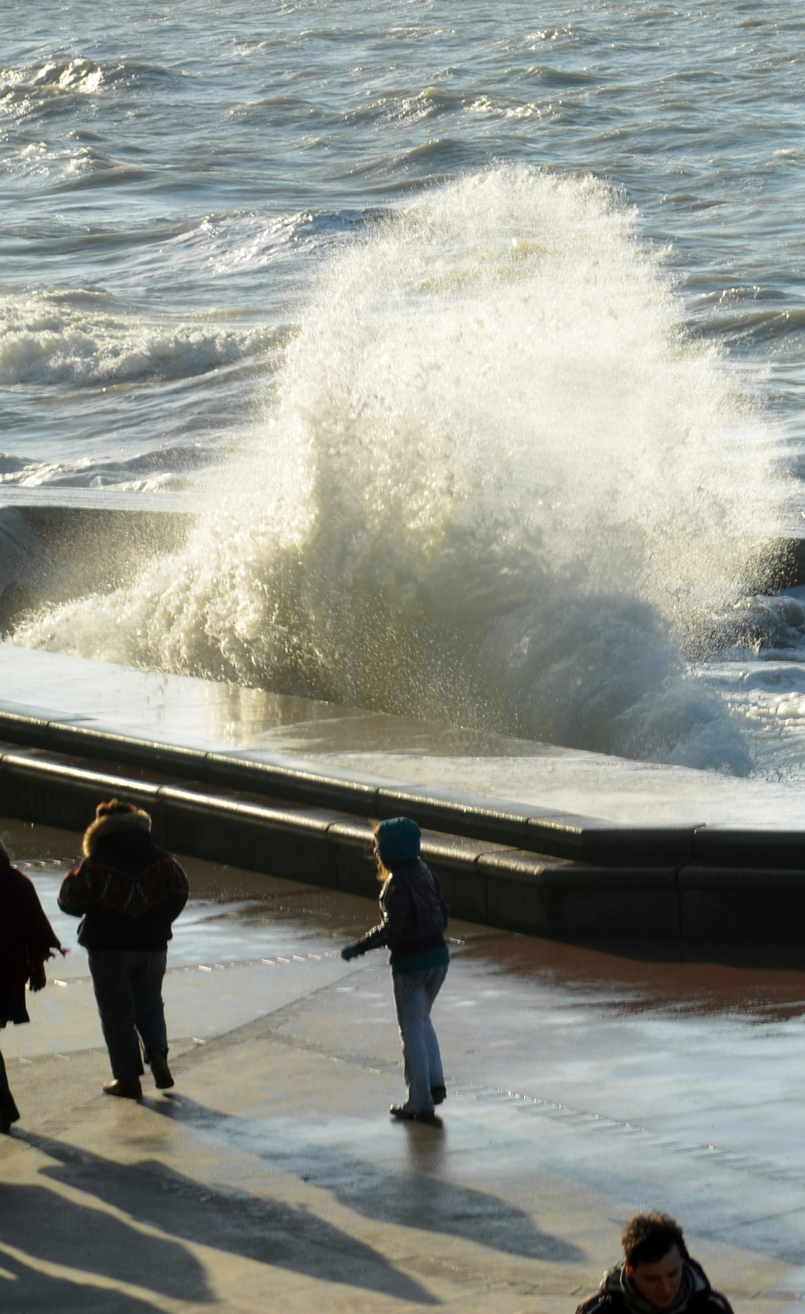 Splashing of waves against the seawall of Wimereux (french side of Strait of Dover, Nord-Pas-de-Calais region), on Christmas Day (December 25, 2014)